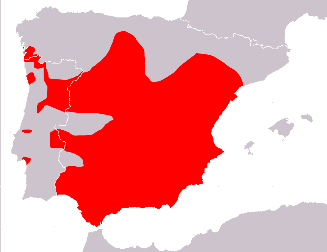 Chalcides bedriagai range map.